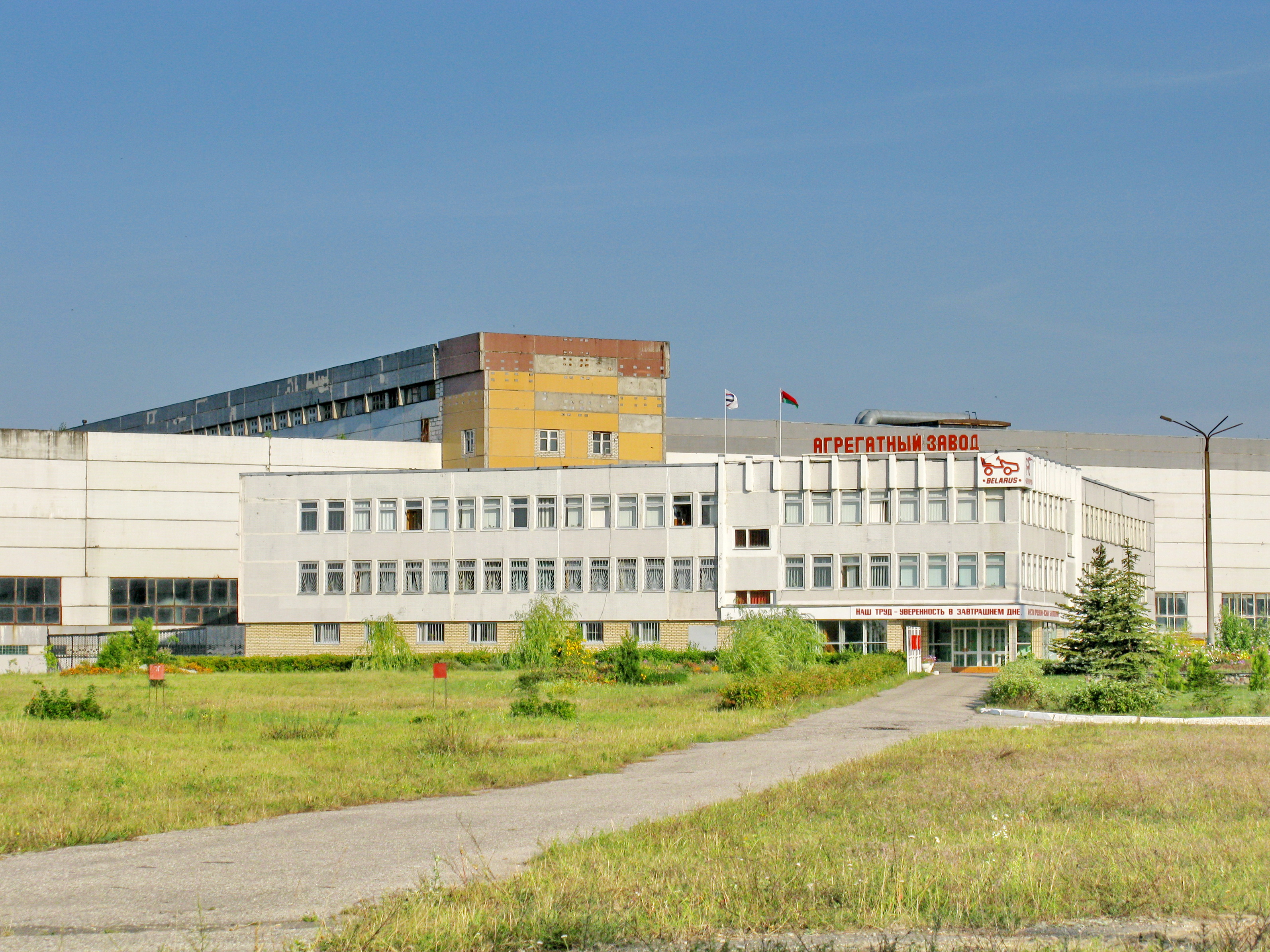 Smarhon aggregate factory, Belarus